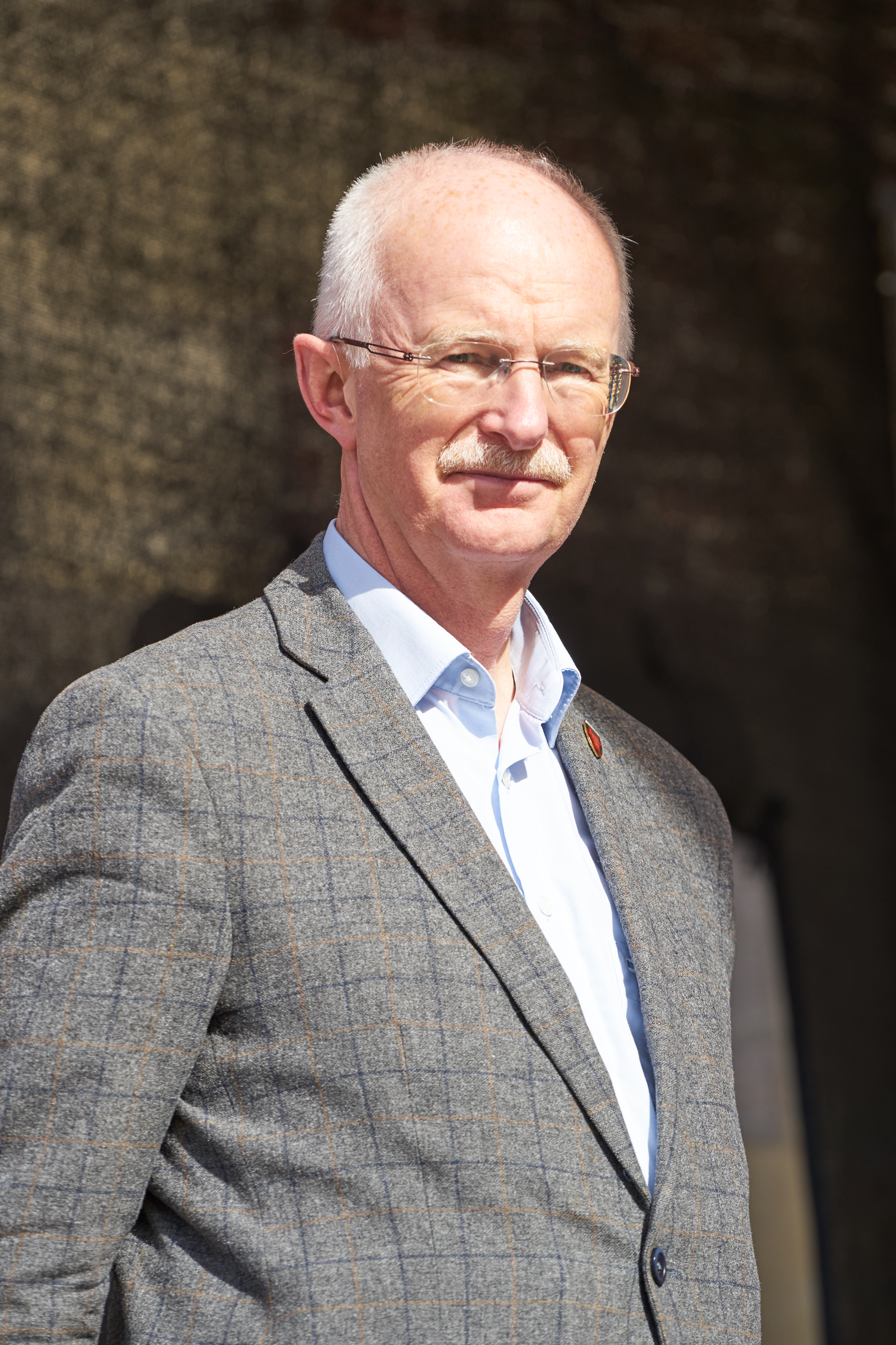 Münsterland Giro 2018, Heinz Öhmann, mayor of Coesfeld (start location).